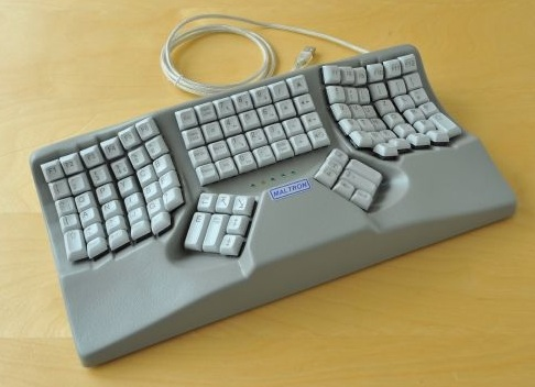 Self